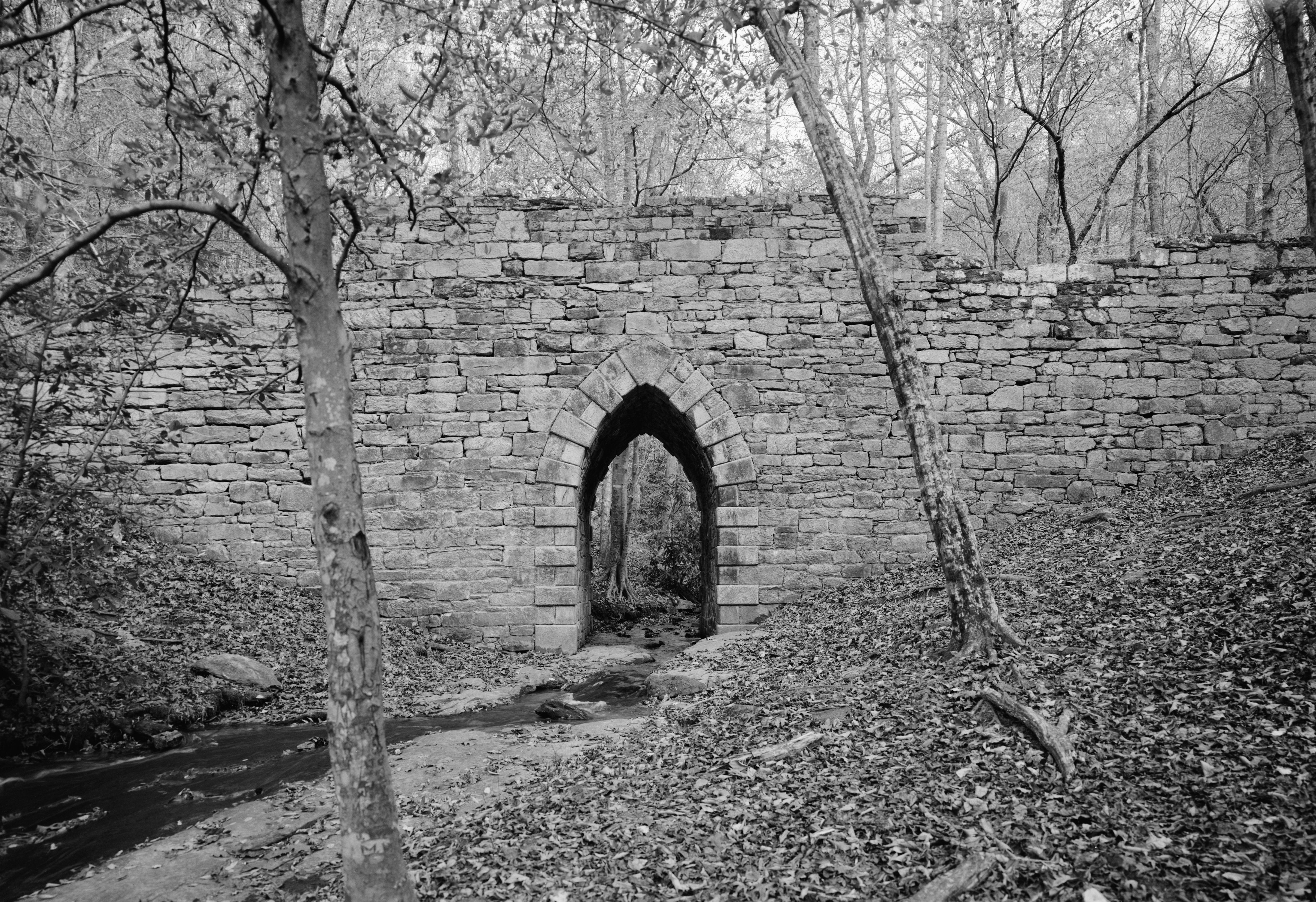 Poinsett Bridge, SC Route 42, 2 miles Northwest of Route 11, 2.5 miles East of SC Route 25, Tigerville vicinity, Greenville County, SC.